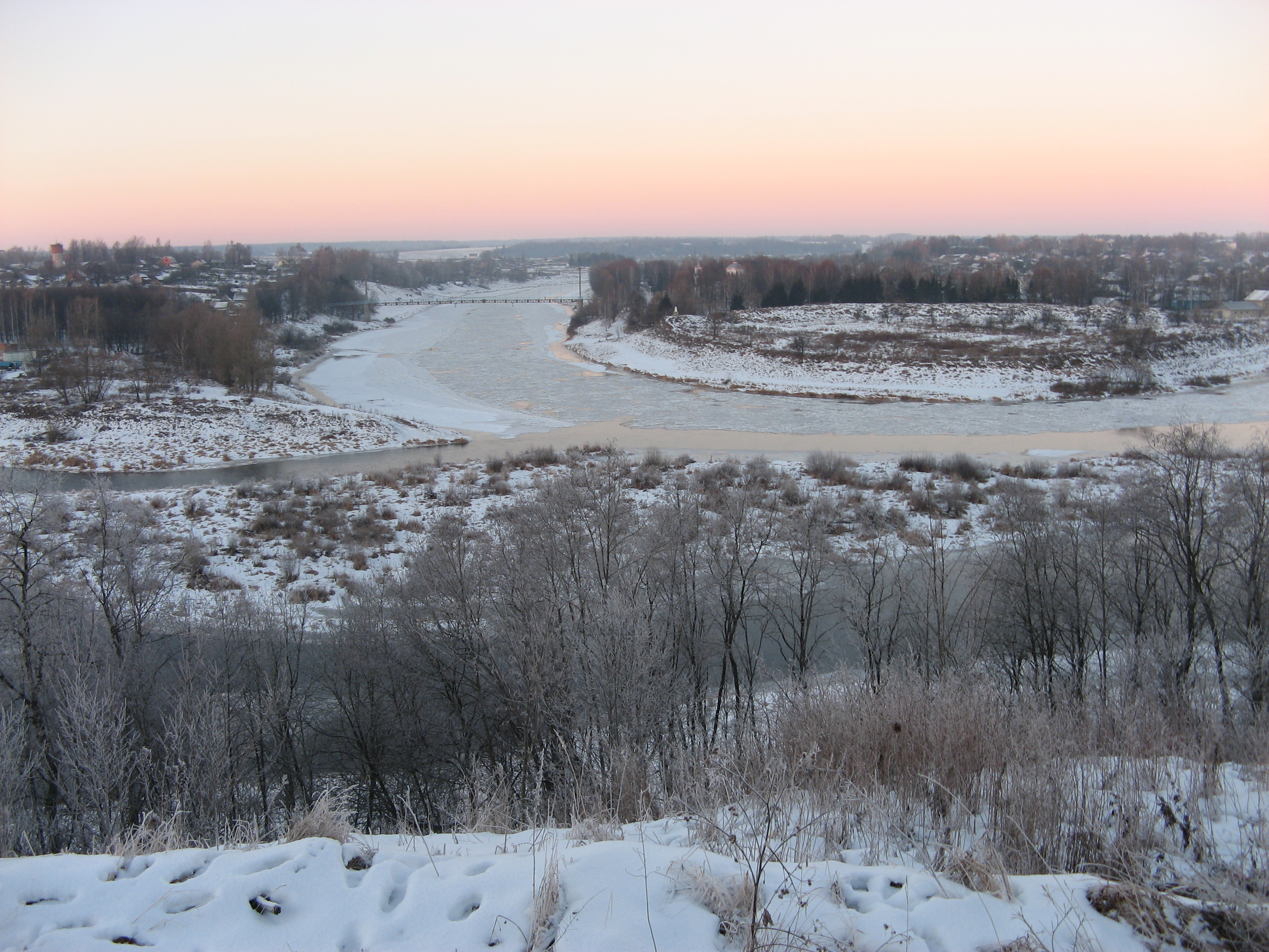 Winter in Zubtsov.